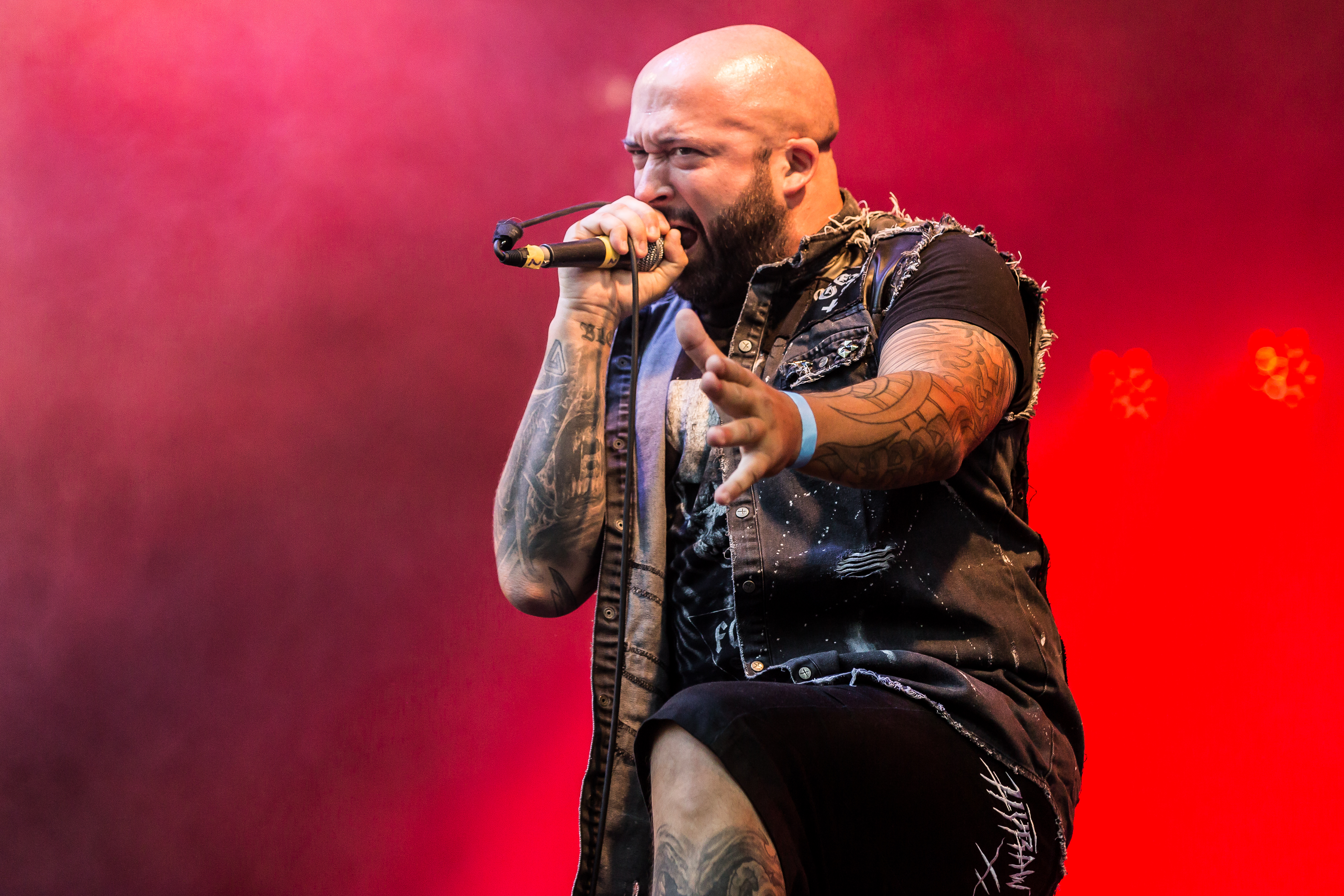 The French brutal death metal band Benighted at the Rock unter den Eichen Open Air 2017 in Bertingen/Germany.